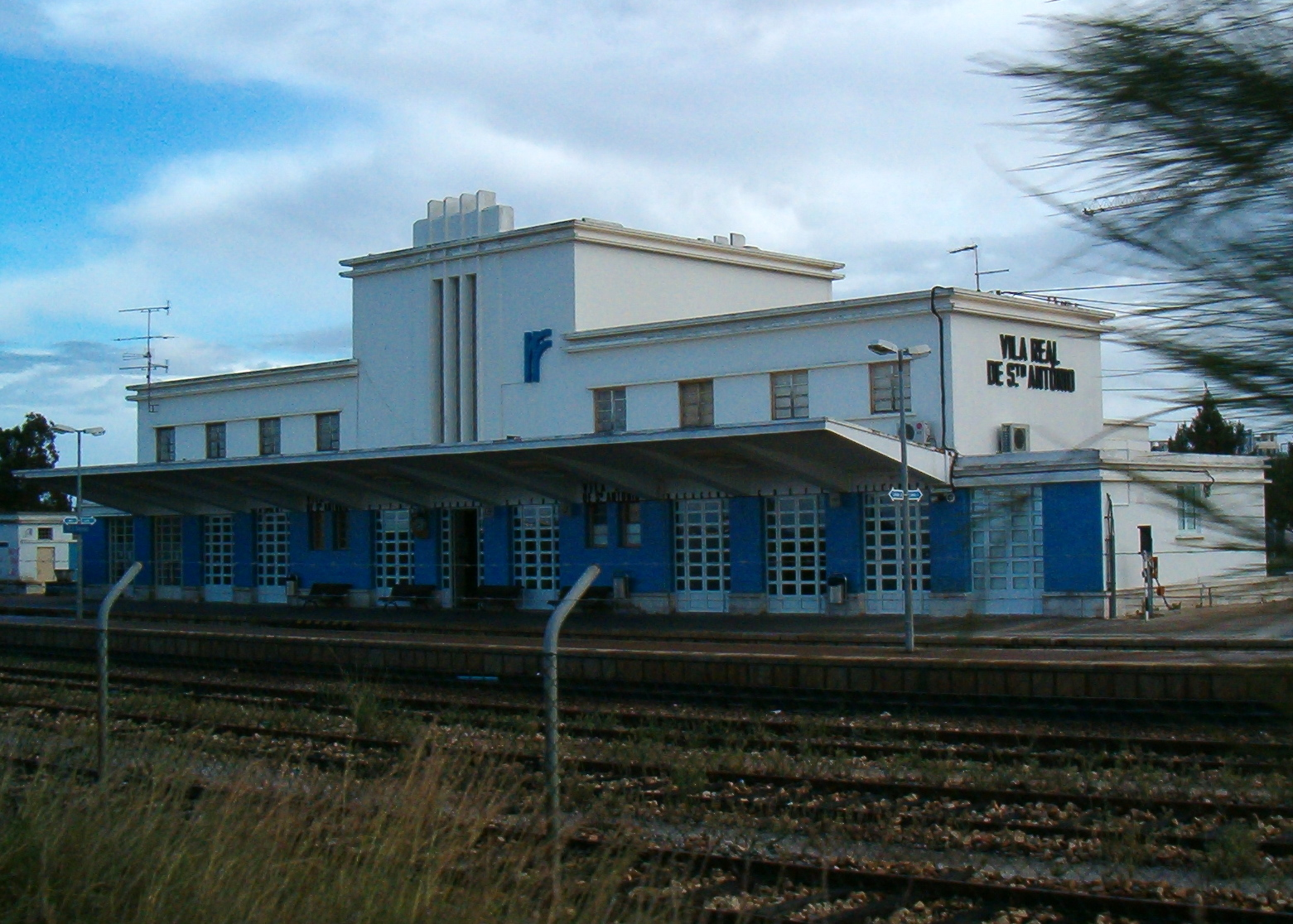 Vila Real de Santo António train station